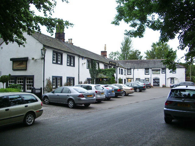 Pheasant Inn